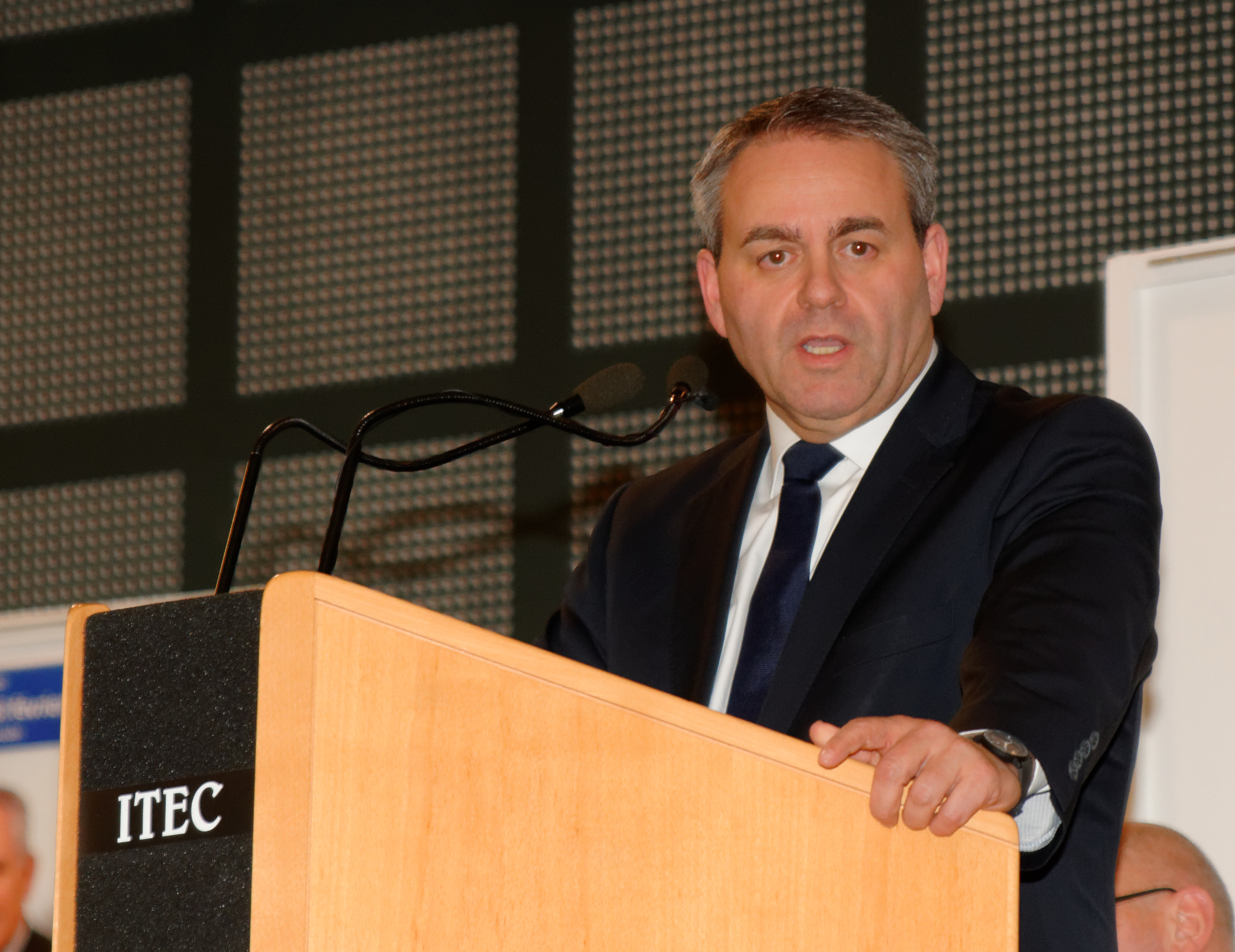 Personality rights warningAlthough this work is freely licensed or in the public domain, the person(s) shown may have rights that legally restrict certain re-uses unless those depicted consent to such uses. In these cases, a model release or other evidence of consent could protect you from infringement claims.